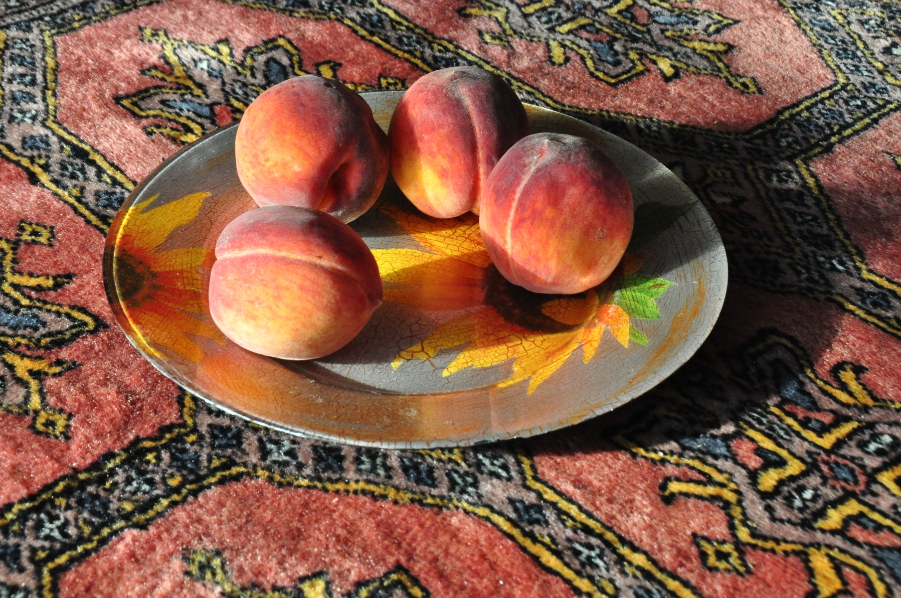 Peaches (Prunus persica) on the plate.